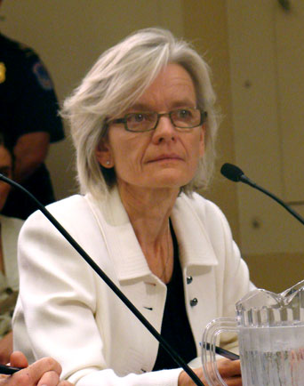 Dr. Lisa Graumlich, Director, School of Natural Resources and the Environment, University of Arizona, and member of the "Oxburgh Inquiry" panel. IPCC Report Chairs, Member of Exculpatory Panel on Email Scandal Re-establish Climate Science’s Broad Knowledge, Urgency to Act Even after months of personal attacks against climate scientists stemming from a manufactured scandal over stolen emails, the underlying science behind the need to stem the tide of heat-trapping emissions remains solid. To explain what we know about climate change, and why and how we know it, Chairman Edward J. Markey (D-Mass.) and the Select Committee on Energy Independence and Global Warming hosted top-level American climate scientists at a congressional hearing on Thursday, May 6, 2010. The scientists addressed the claims of deniers head-on. Thursday’s panel featured a member of the investigative panel convened by the University of East Anglia and led by Lord Ron Oxburgh to review the stolen emails from that school’s Climactic Research Unit. The “Oxburgh Inquiry” exonerated the scientists who were attacked following the emails, saying they “saw no evidence of any deliberate scientific malpractice in any of the work.”